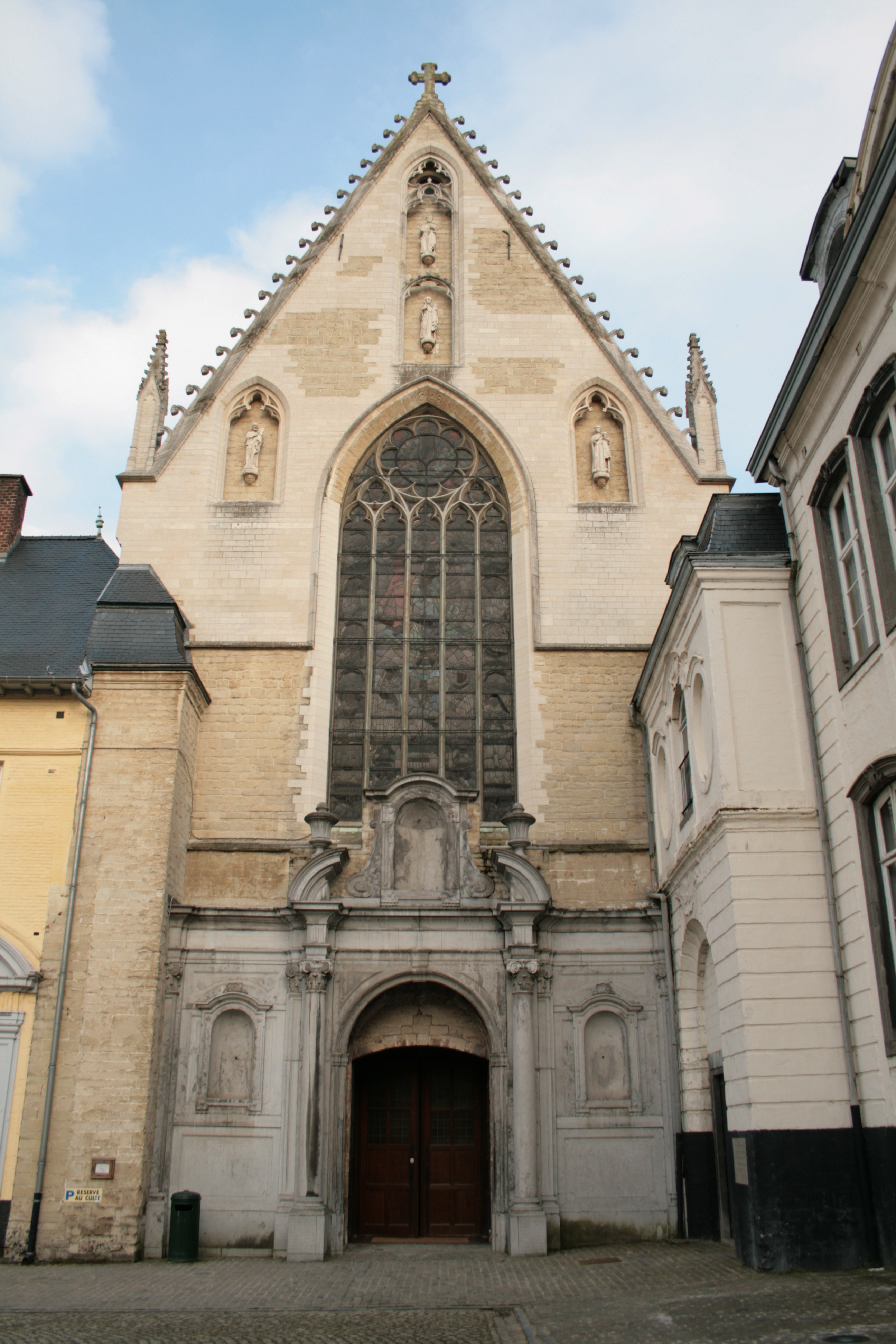 Ixelles (Belgium), church (XIV/XVIth centuries) of the previous La Cambre Abbey.